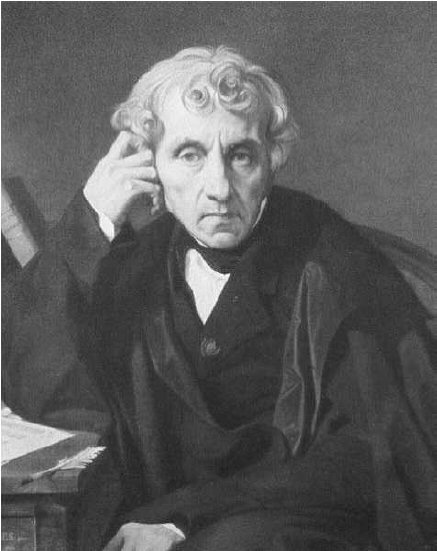 zeitgenössisches Gemälde von Luigi Cherubini (has no copyright notification in contrast to other images in the encyclopedia)